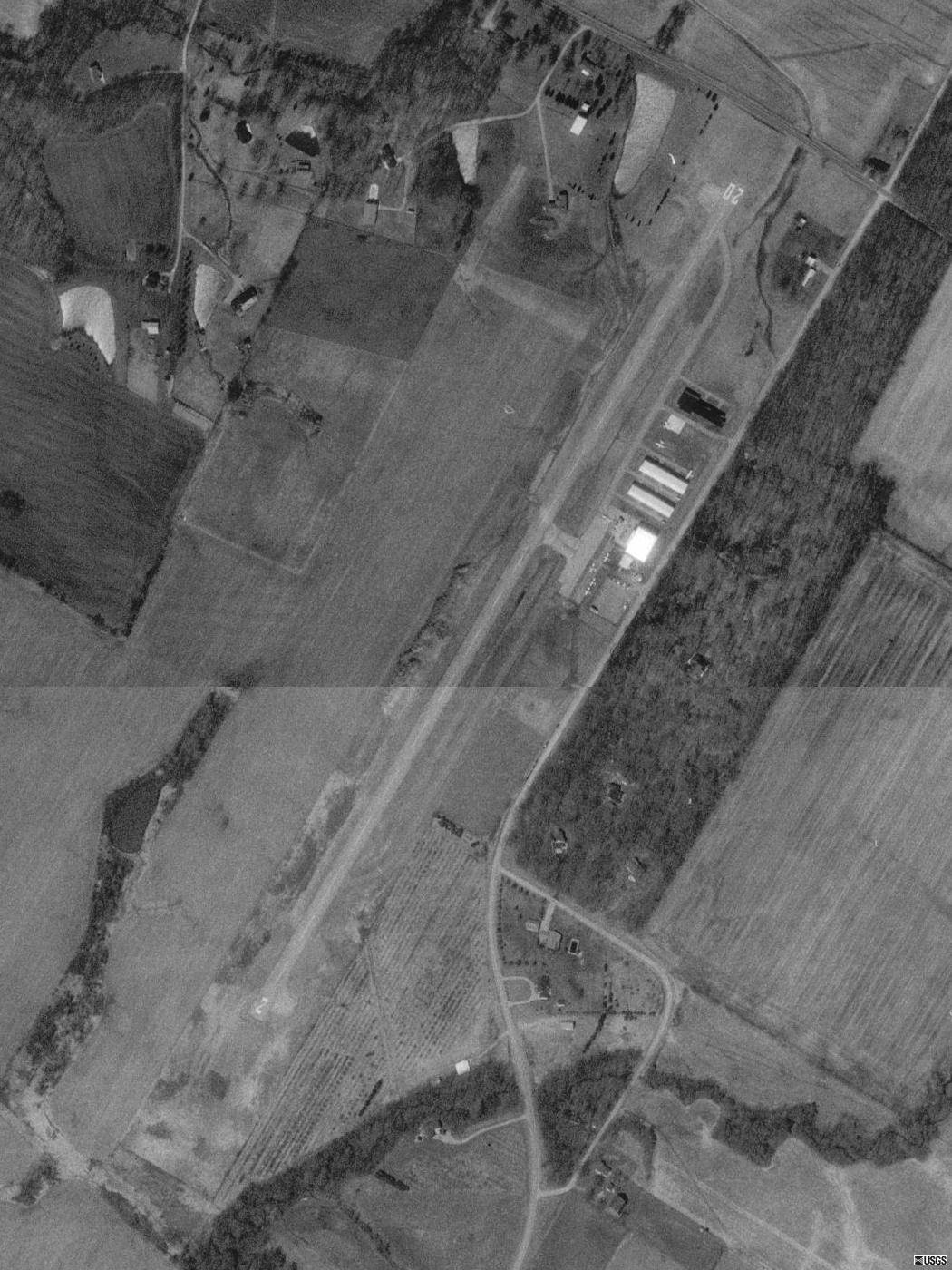 USGS digital orthophoto of Clinton Field, an airport in Wilmington, Clinton County, Ohio, United States.